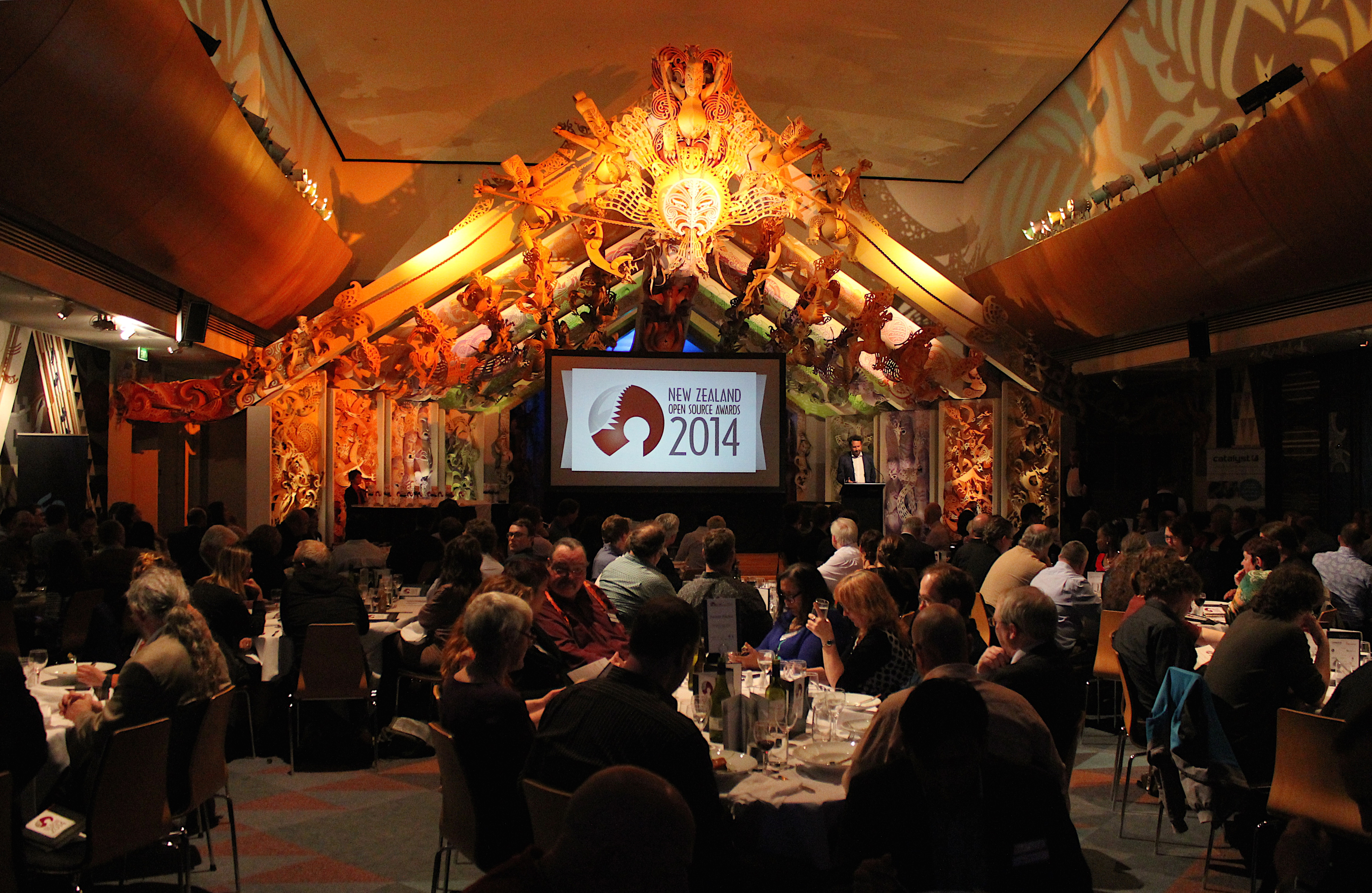 The New Zealand Open Source Awards (NZOSA) recognize contributions from New Zealand to open source in many different areas. For more information, please see .nz